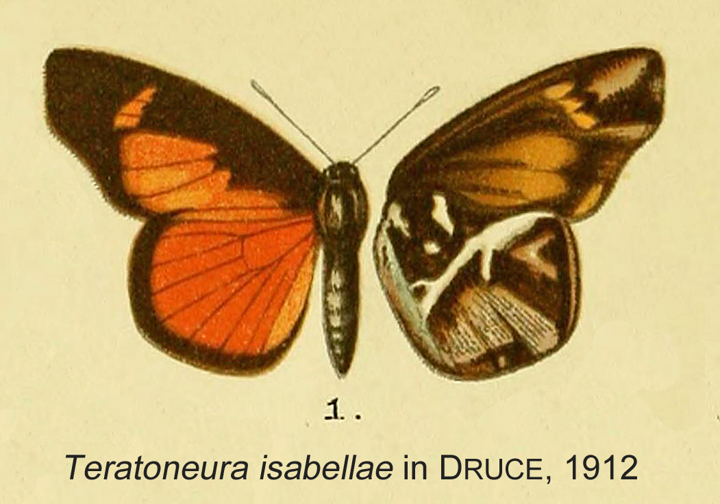 Teratoneura isabellae from Druce, 1912.